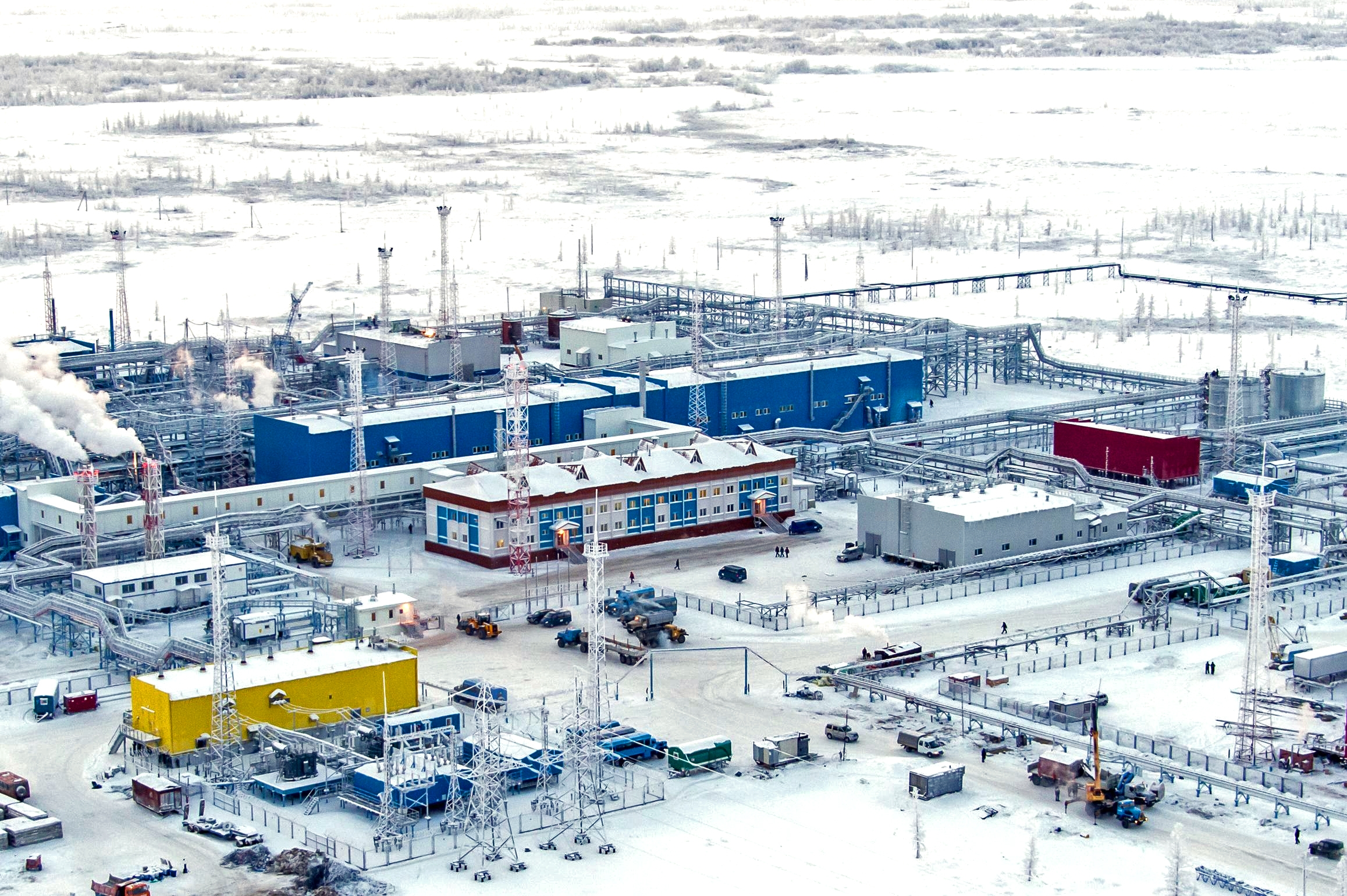 Zapolyarnoye gas field, gas treatment installation